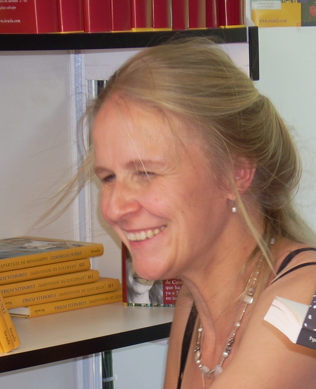 German writer Cornelia Funke signing books at 2008 Madrid book fair